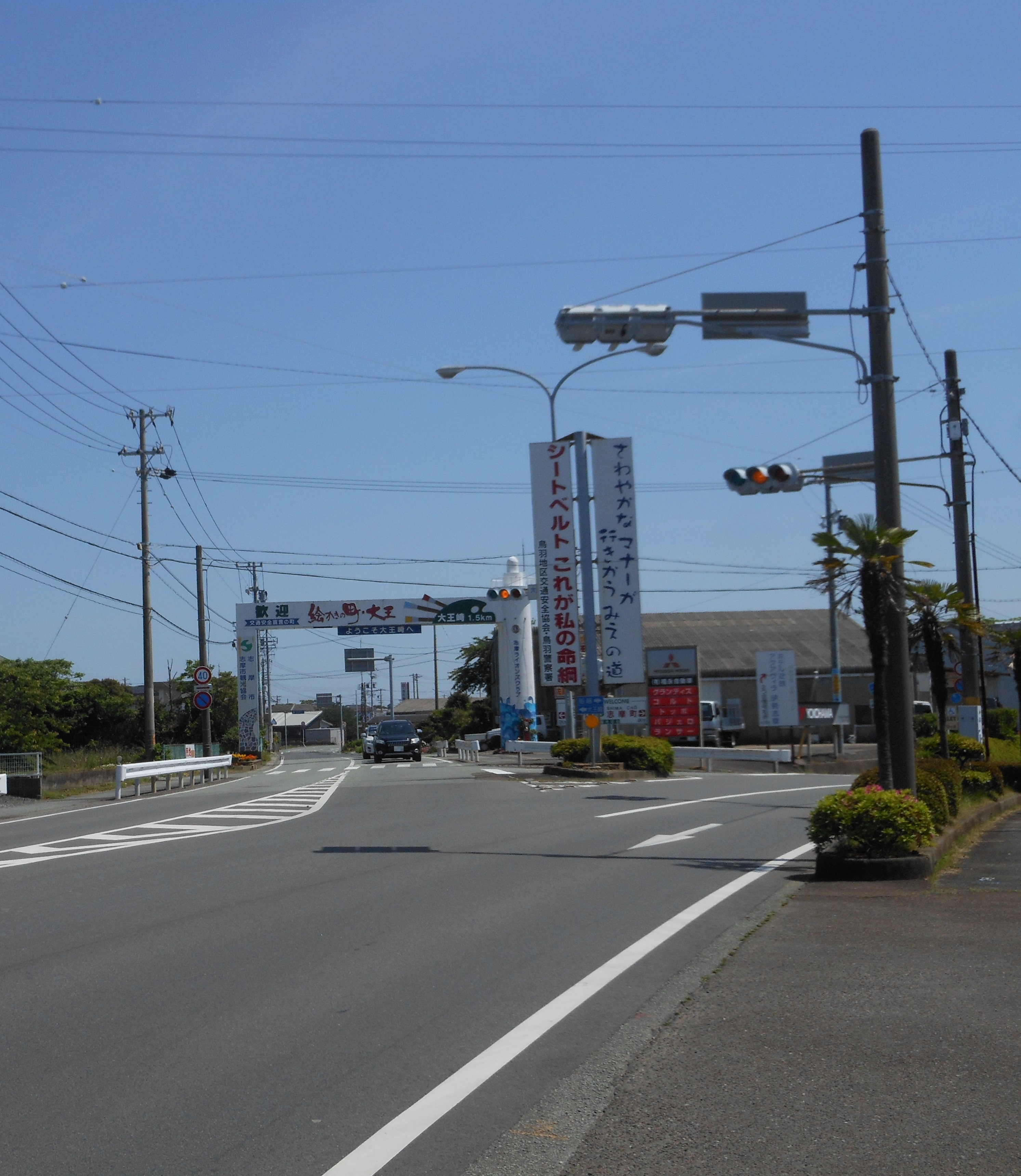 This is an end of the road in Shima City,Mie Prefecture,Japan.